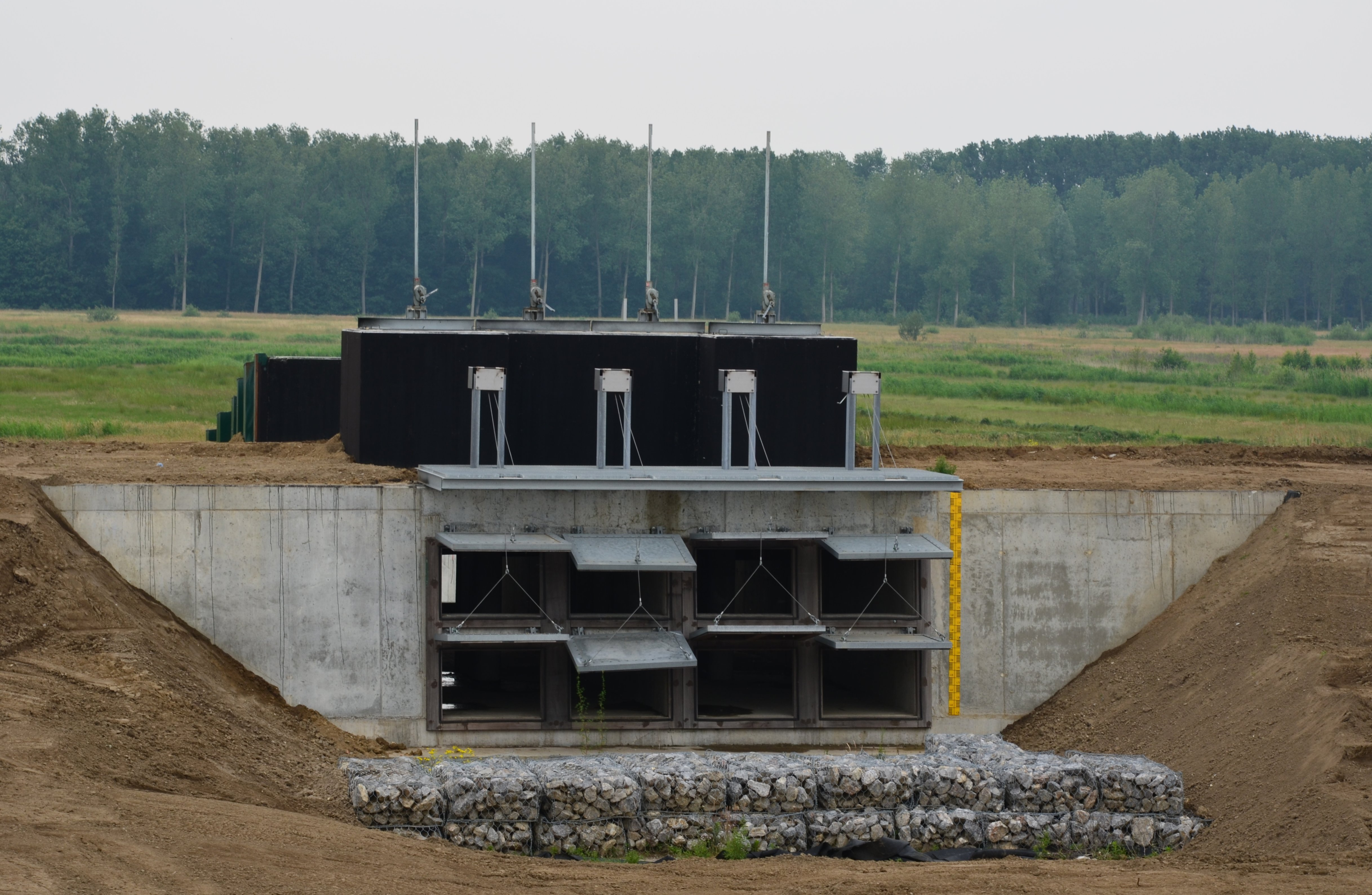 Effluent construction which will regulate the water level of the controlled floodplain of Kruibeke, Bazel and Rupelmonde (Belgium)